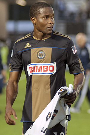 Picture of soccer player Danny Mwanga.